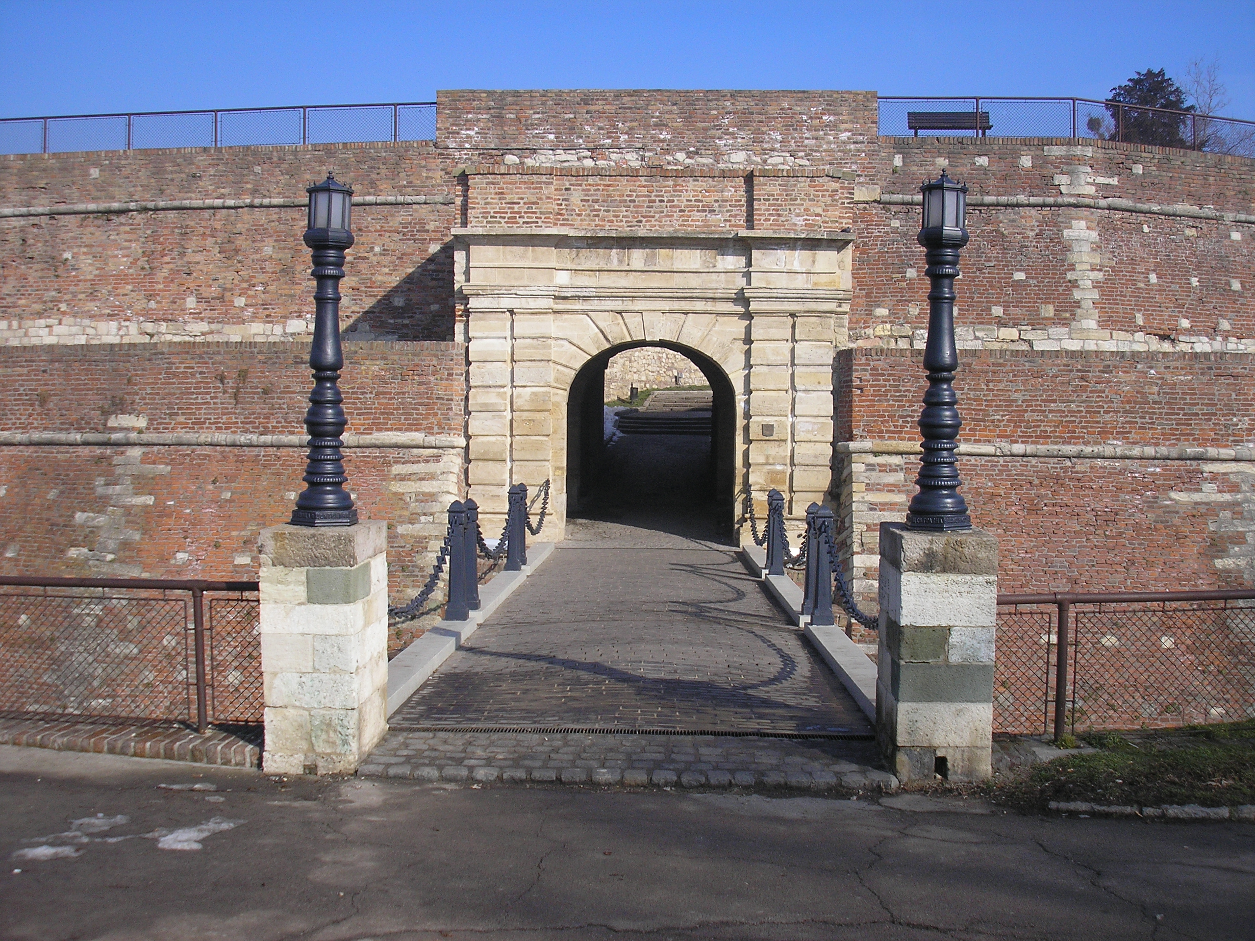 A bridge in Kalemegdan. Belgrade, Serbia.